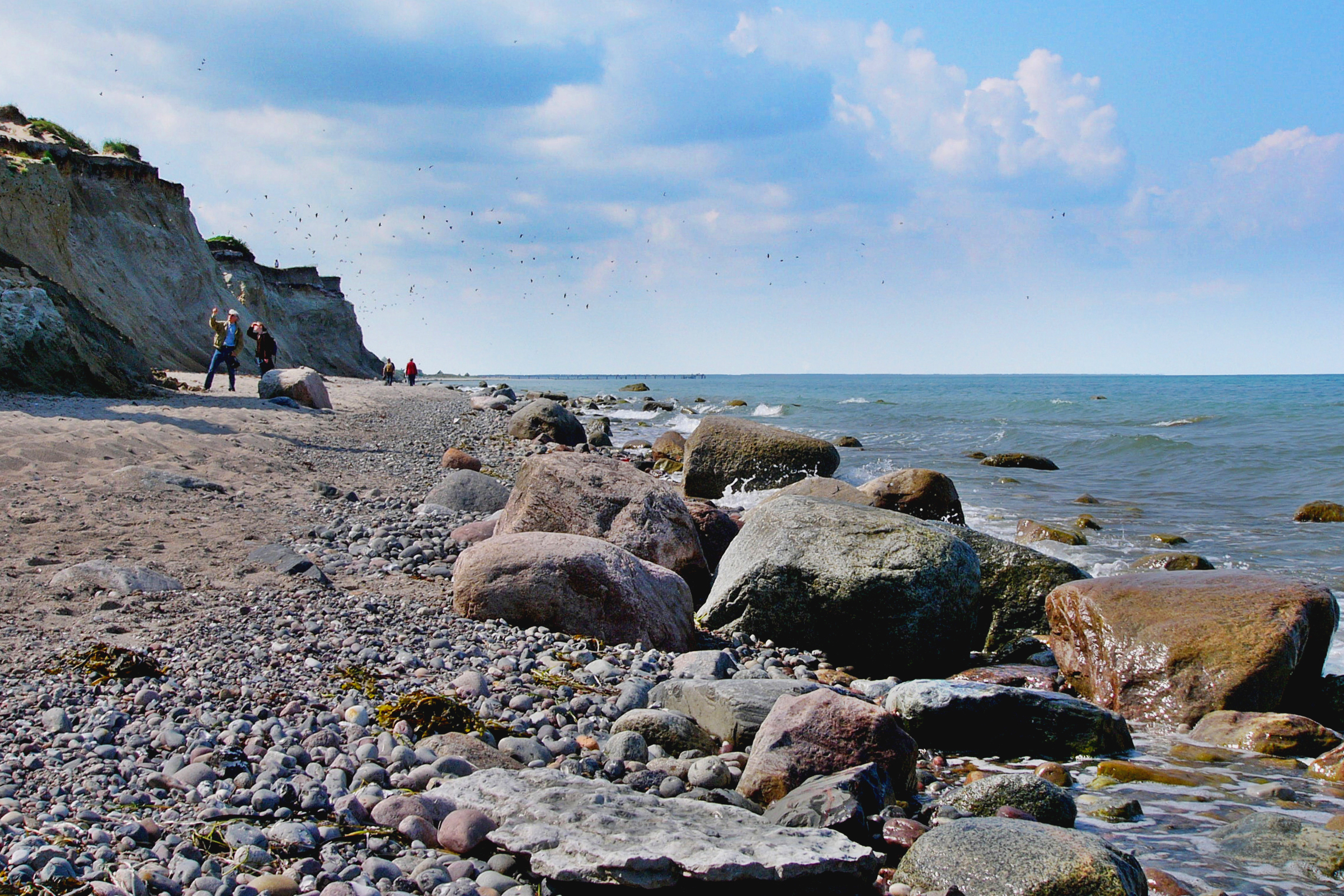 Steep coast near Ahrenshoop, Germany